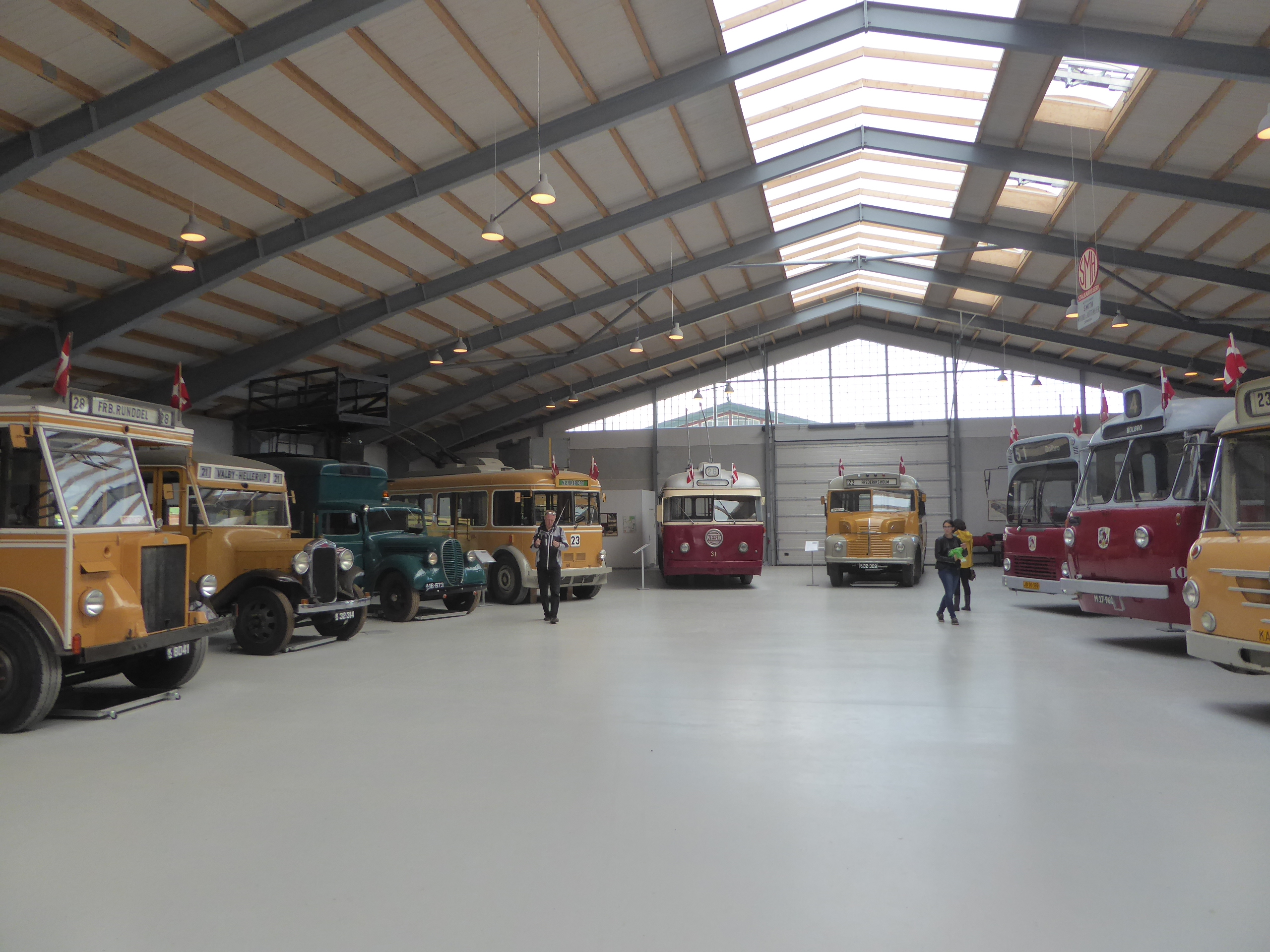 Old buses from Copenhagen, Odense and Aarhus in the new bus exhibition hall at Sporvejsmuseet Skjoldenæsholm in Denmark.